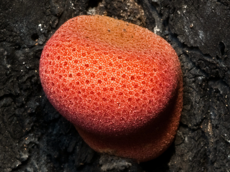 Fistulina hepatica (Schaeff.) With.